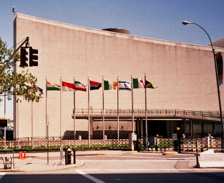 A picture of flags waving in the courtyard of the UN building in New York. The Israeli flag is in the focus, but the picture also includes the national flags of India, Indonesia, Iran, Iraq, Ireland, Italy and Jamaica. The picture is my own work, and I hereby release it to the public domain.